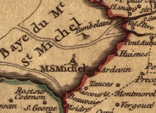 Mont Saint-Michel on a 1758 map of the government of Normandy